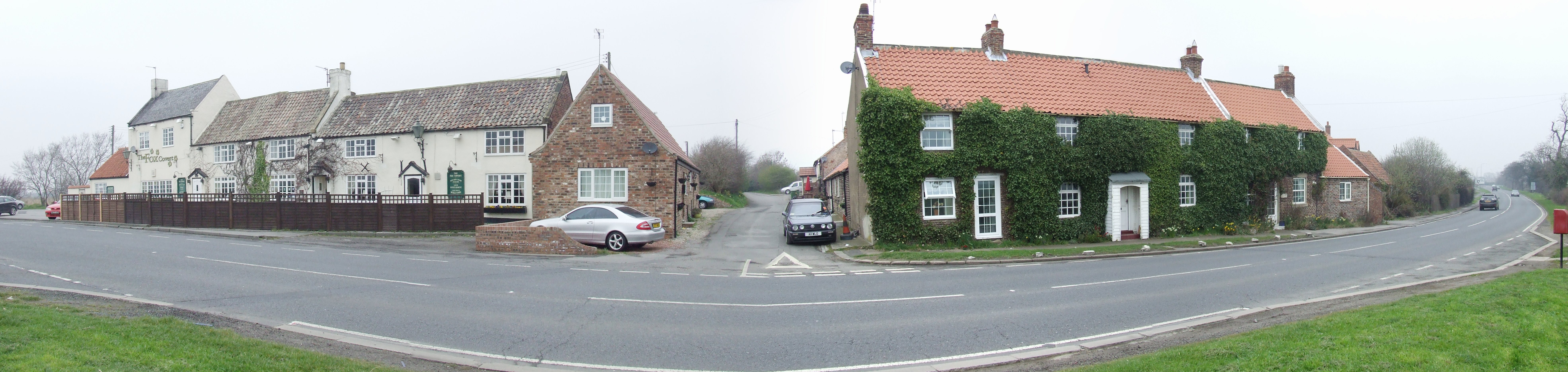 Panoramic of High Leven near Yarm, England